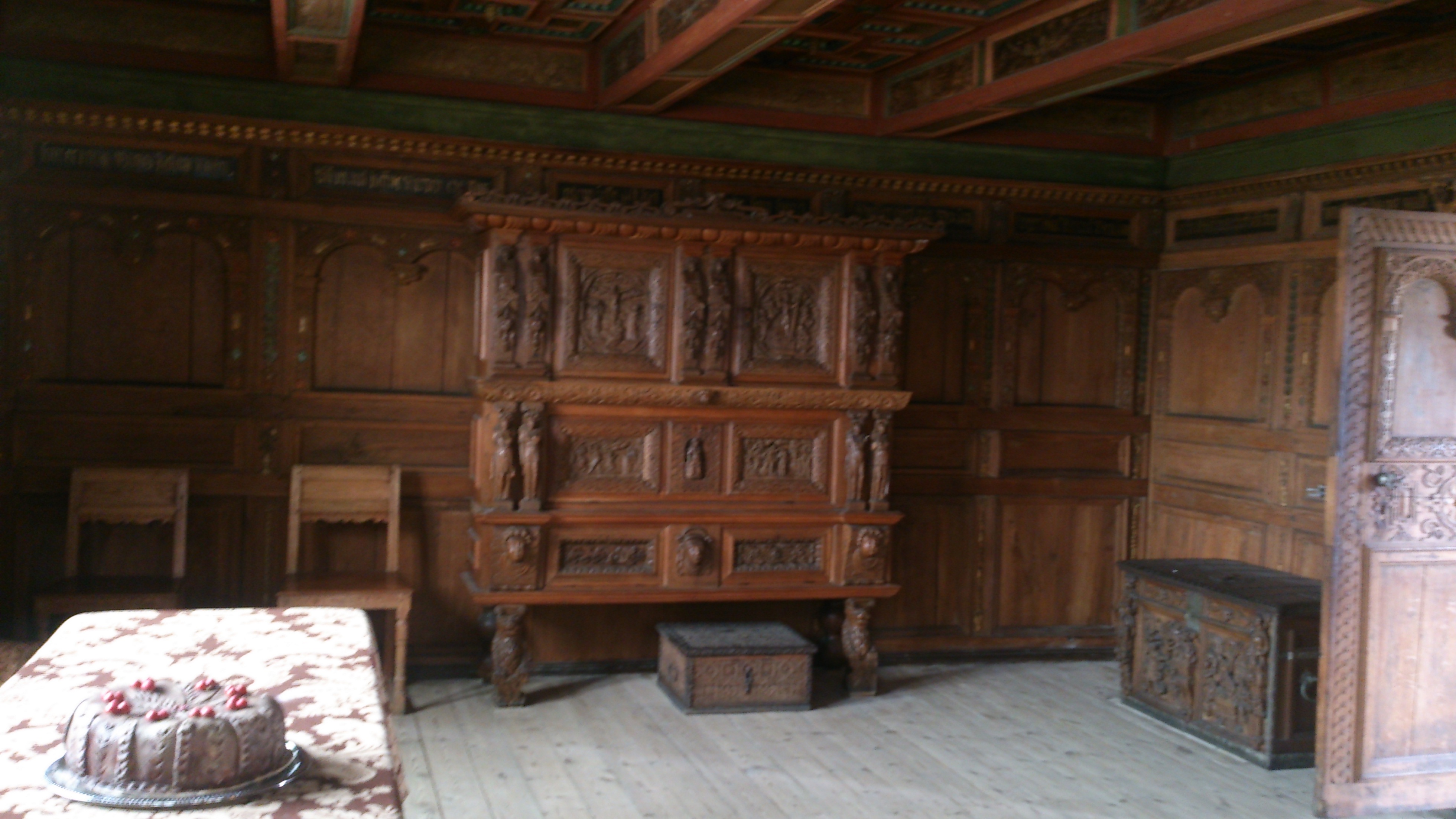 Danish renaissance wooden living room from 1602. Exhibited at Aalborg Historiske Museum in Denmark